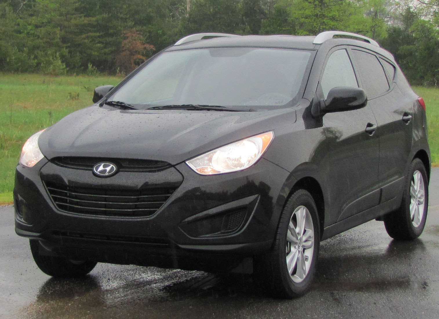 2010 Hyundai Tucson photographed in Manassas, Virginia, USA.